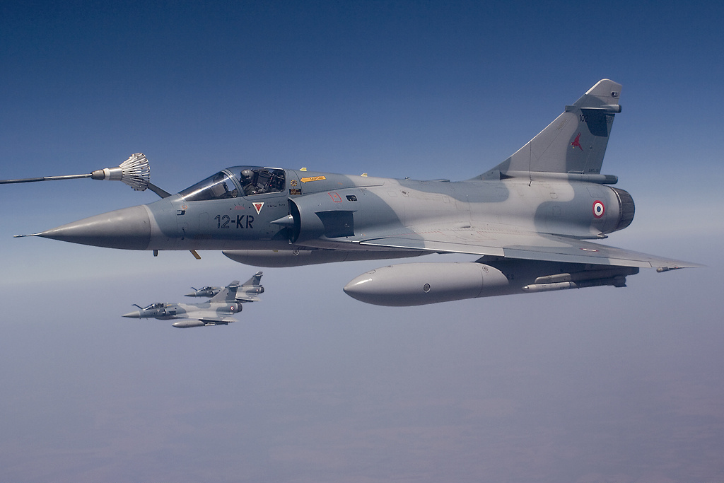 A Mirage 2000C can be seen here refueling from a FAB KC-137 during CRUZEX III, while two other Mirage 2000Cs from EC02.012 'Picardie' await their turn.